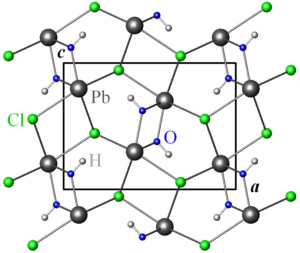 Crystal structure of laurionite, PbCl(OH), Pcmn, projected onto the (a,c) plane. Dark gray: lead atoms, green: chlorine atoms, blue: oxygen atoms, light gray: hydrogen atoms.